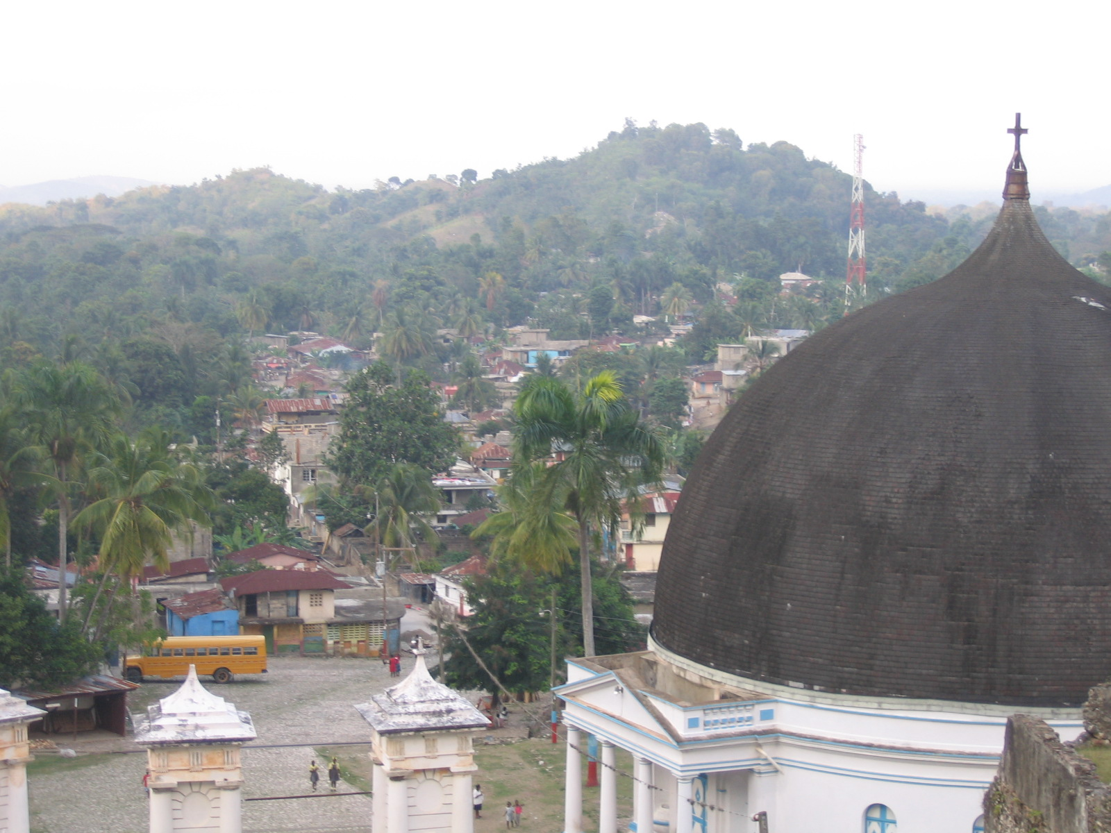 Image of the town of Milot, Haiti taken from the Sans-Souci Palace.